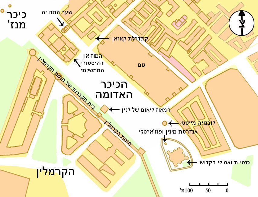 Plan of Moscow Kremlin